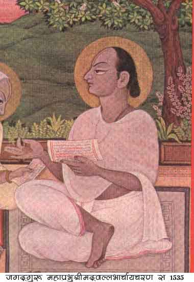 [Vallabha_Acharya Jagadguru Mahaprabhu Shri Vallabhcharya Shri Mahaprabhuji], the creator, follower and preacher of Pushtimarg - a Hindu religion, based on Shuddhadvaita philosophy derived from the vedic philosophy.